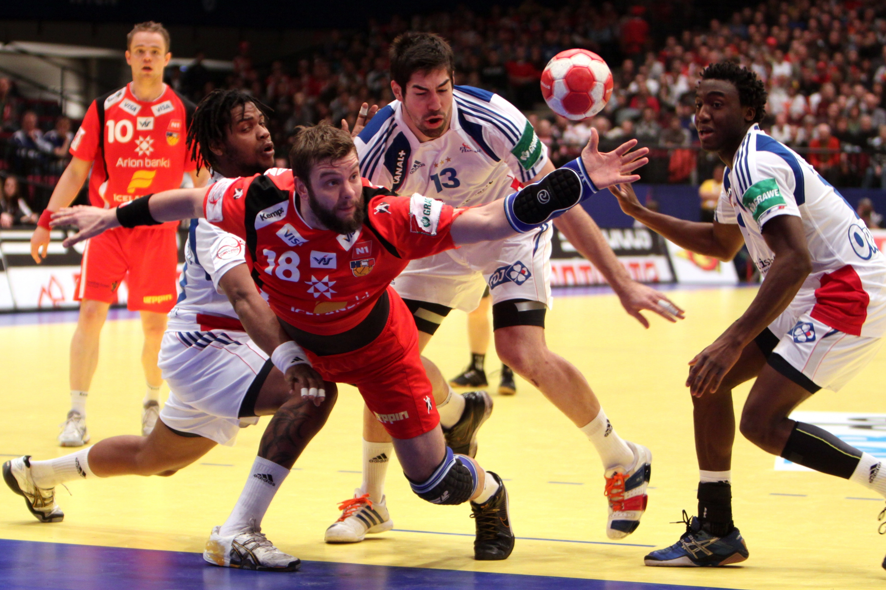 2010 European Men's Handball Championship Semifinal #1: Iceland vs France 28:36 — Róbert Gunnarsson (Iceland national handball team) throws. Cédric Sorhaindo, Nikola Karabatic and Luc Abalo (from left to right, France national handball team) could not desturb.